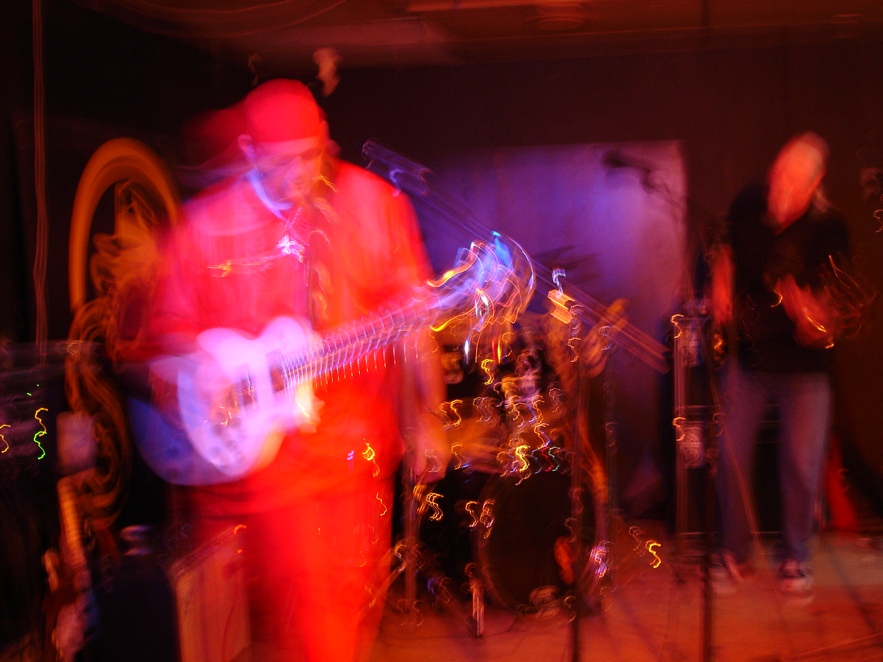 John Nitzinger plays at Stumpy's Blues Bar in Arlington, Texas, 2010. The occasion was a wake for Paul "Woody" Woodruff, one of the owners of the bar.